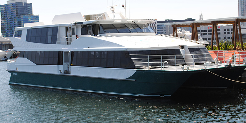 A party boat is seen docked along the Yarra River, Melbourne, Australia in this photo.